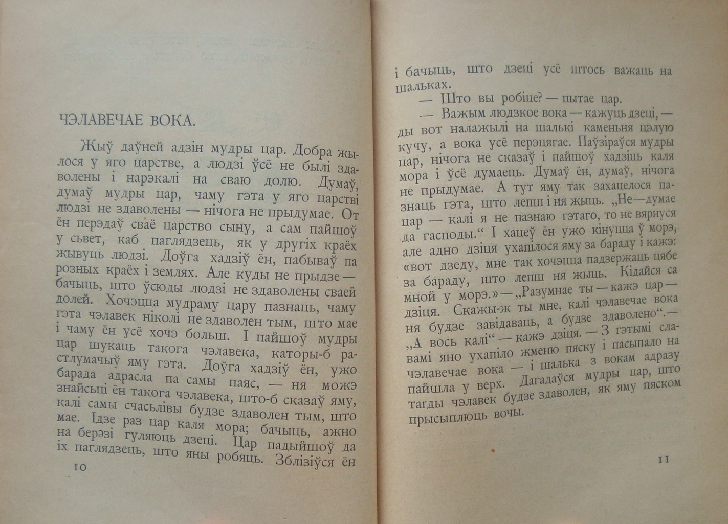 a belorussian tale in a book "Беларускіе казкі" (1912), Vilno city, Russian empire